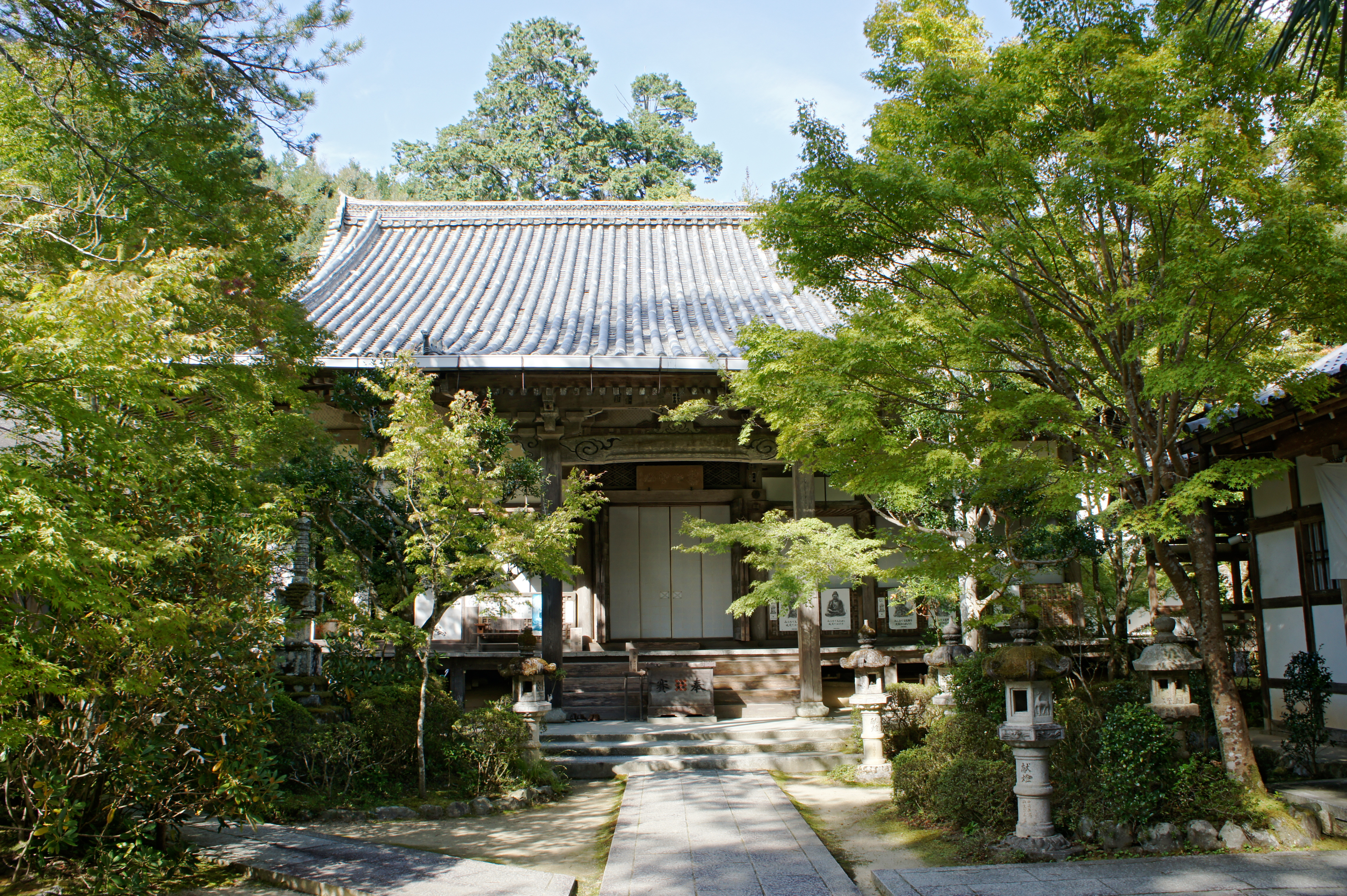 Saimyo-ji in Ukyō-ku, Kyoto, Kyoto Prefecture, Japan.